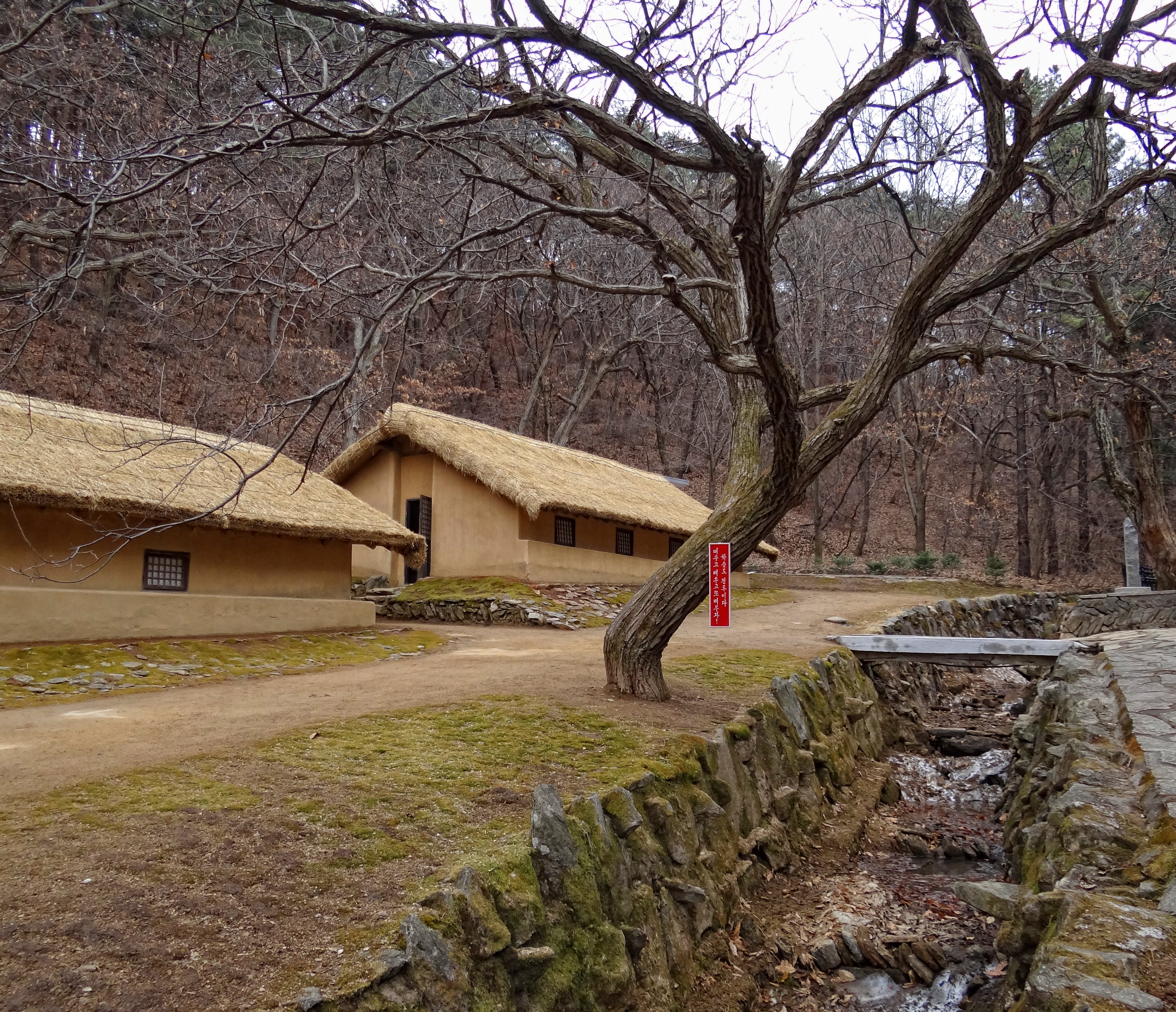 Buildings at the Paeksong Revolutionary Site, the place to which Kim Il Sung University was moved in 1952 during the Korean War.